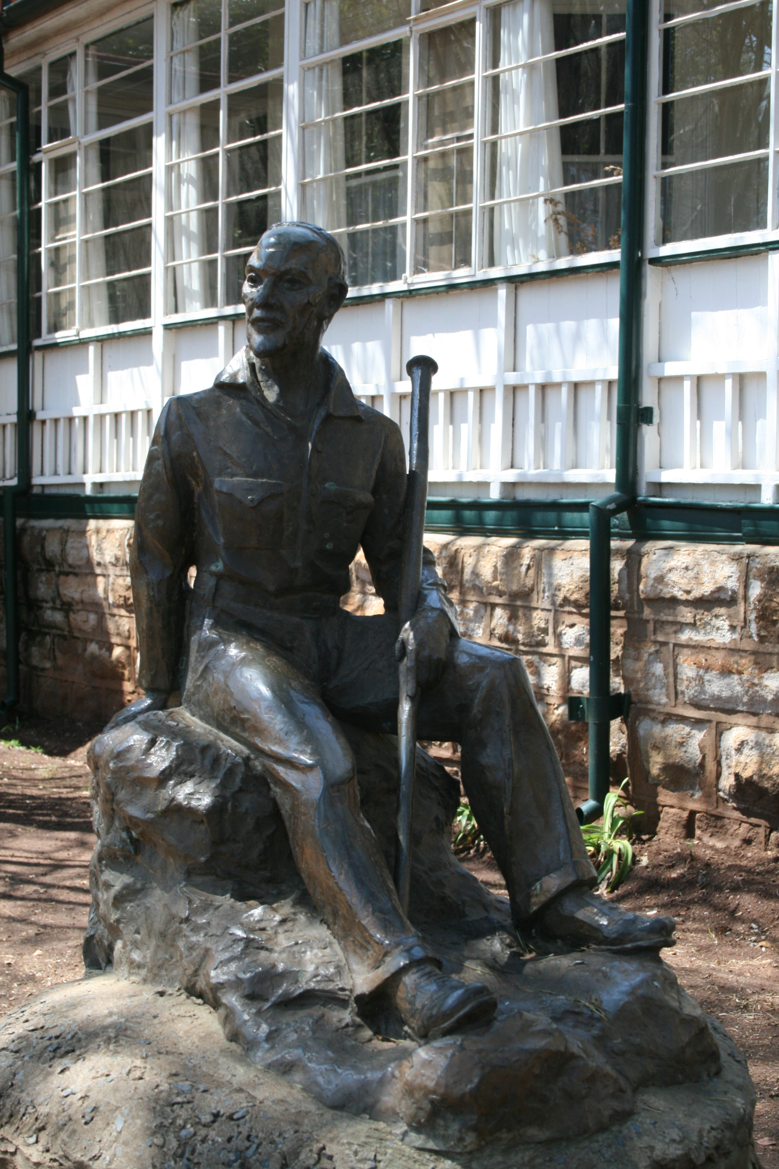 Statue of Jan Smuts, Smuts House, Pretoria, South Africa This media shows a South African Protected Site with SAHRA file reference 9/2/258/0064.